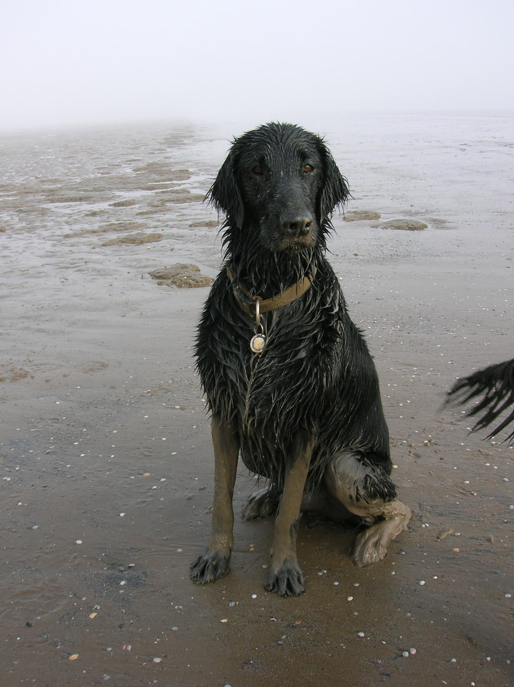 A wet and muddy flat-coated retriever. This is 16 months old "Reggie" from Cheddar in Somerset, England. His is pictured on the beach at Berrow. (Photo is geotagged)